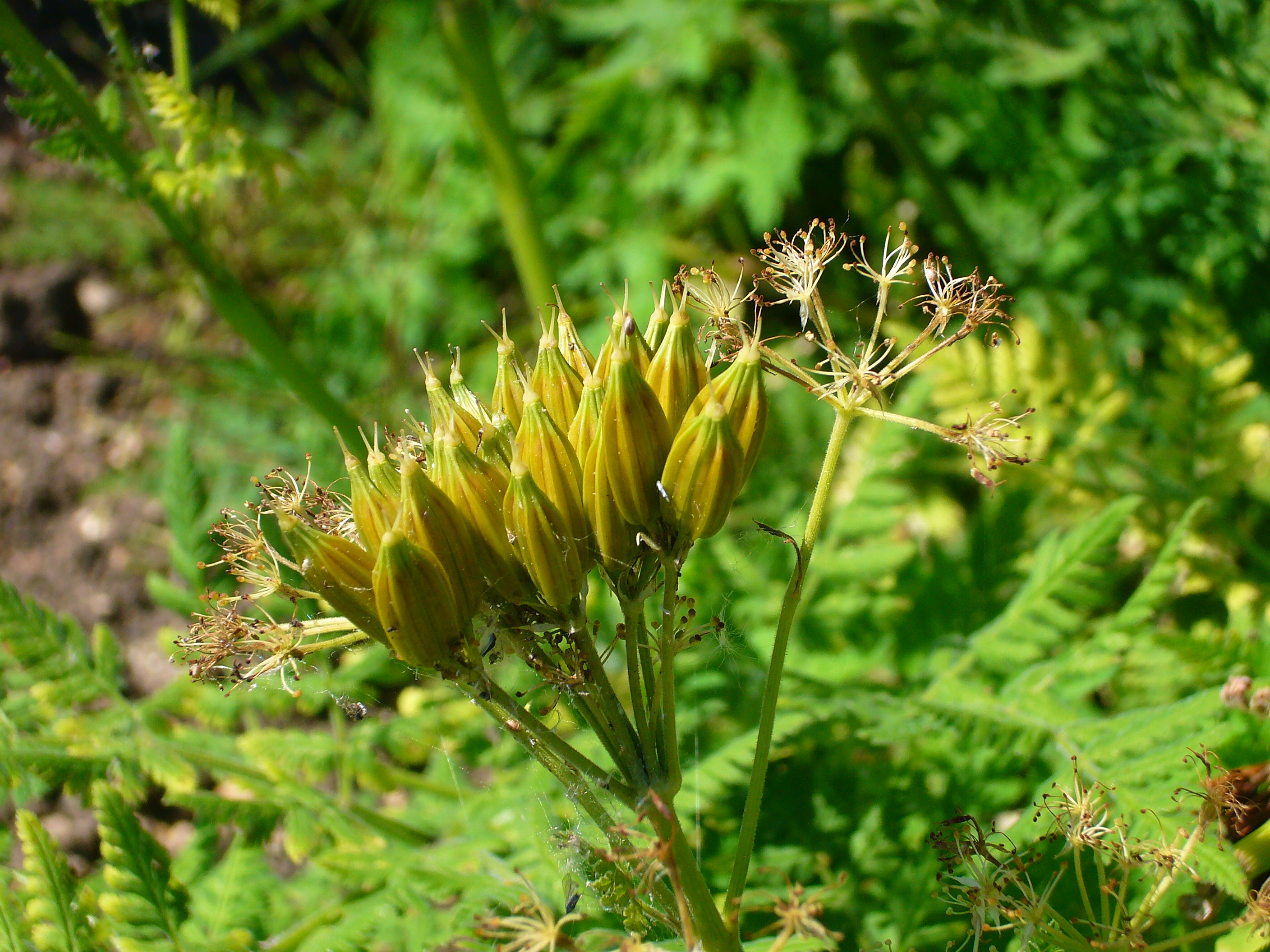 Myrrhis odorata 'sweet cicely' (flower) (photo taken in the Cambridge University Botanic Garden)